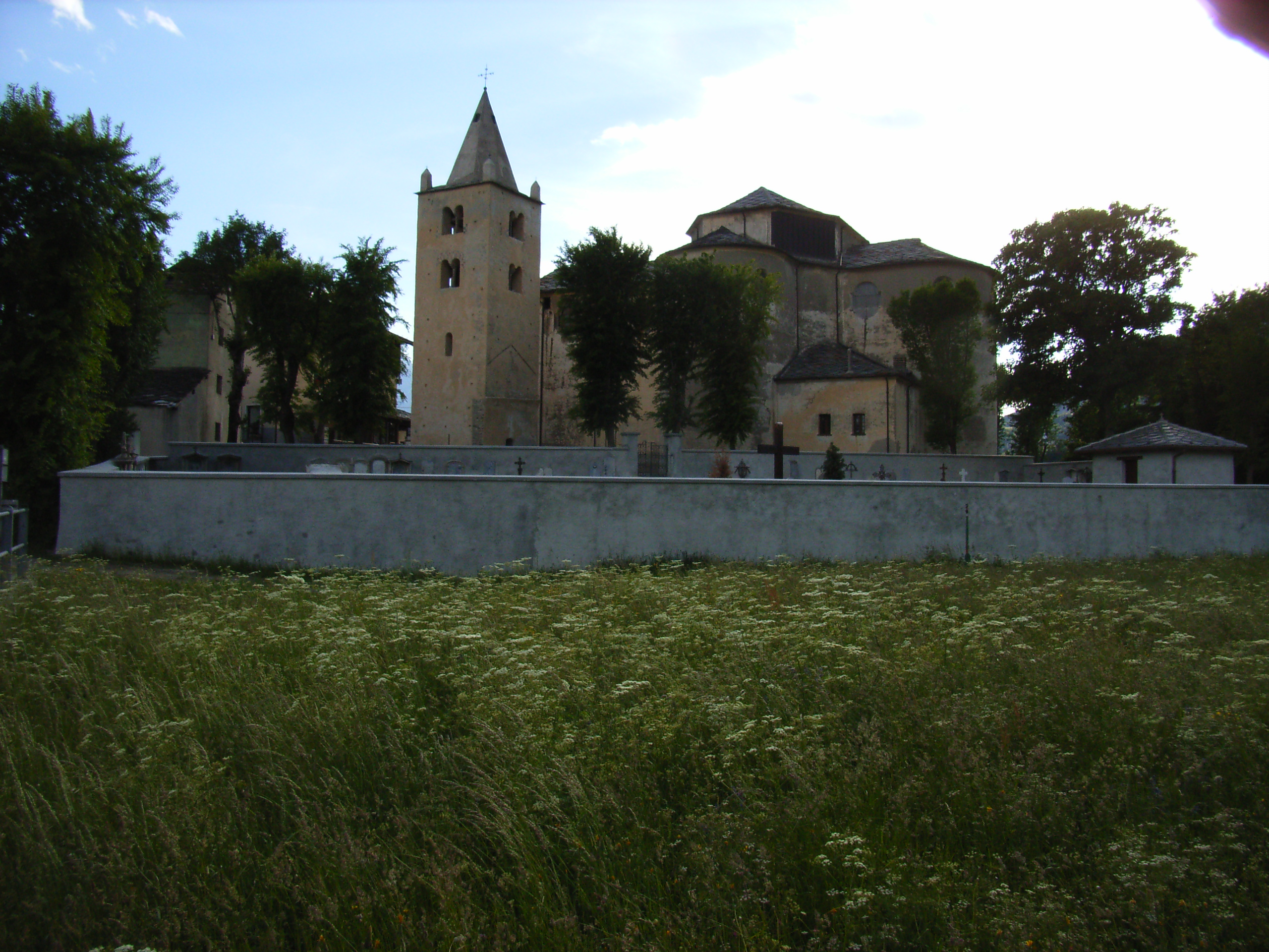 Church of Verrayes (Aosta region, Italy)